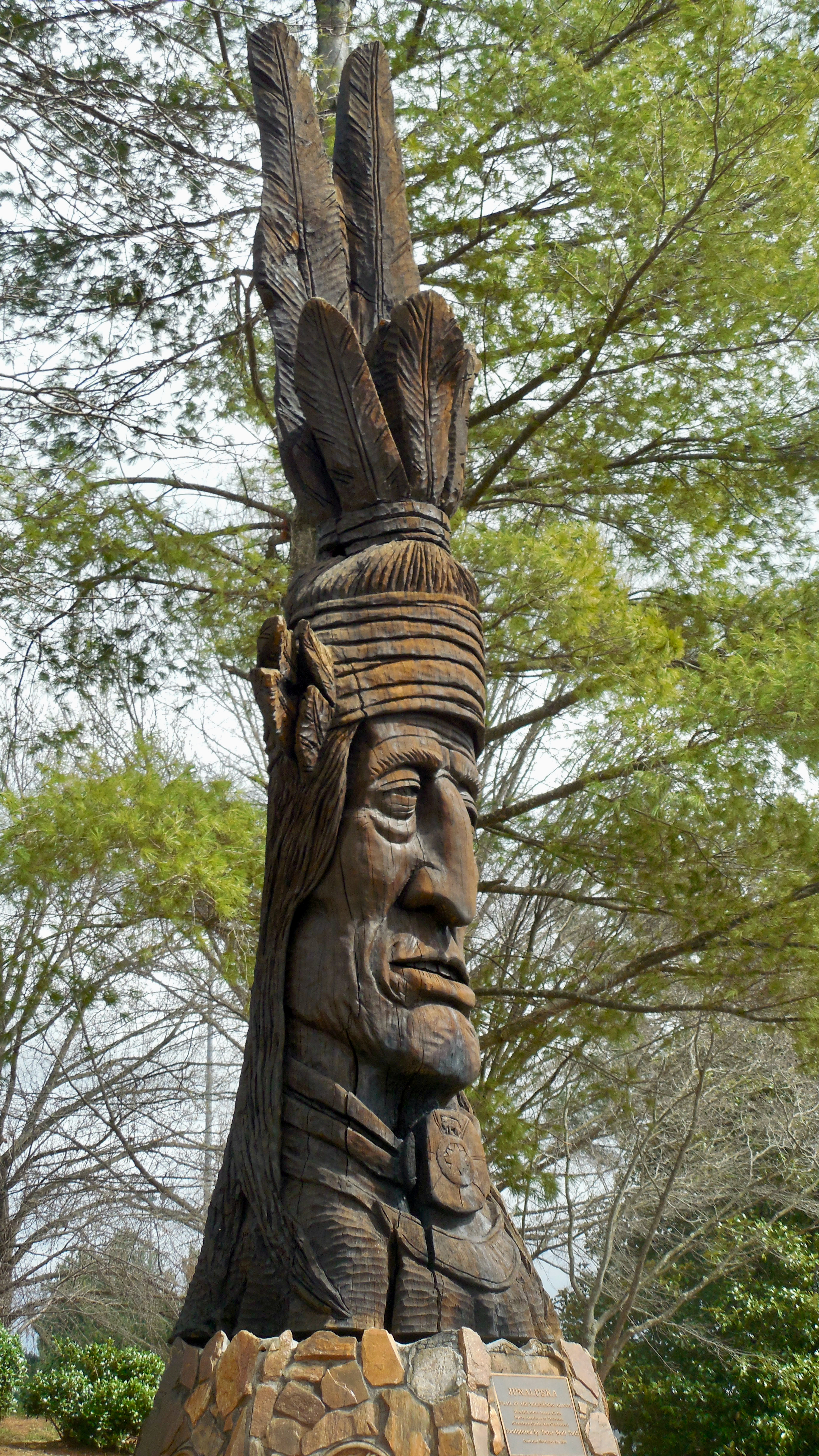 Standing sculpture of Junaluska, located in Metro-Kiwanis Park, Johnson City, Tennessee. Dedicated on 29 Nov 1986 to all Native Americans of Tennessee (Cherokees, Creeks, and Chickasaws). Sculpted by Peter Wolf Toth.